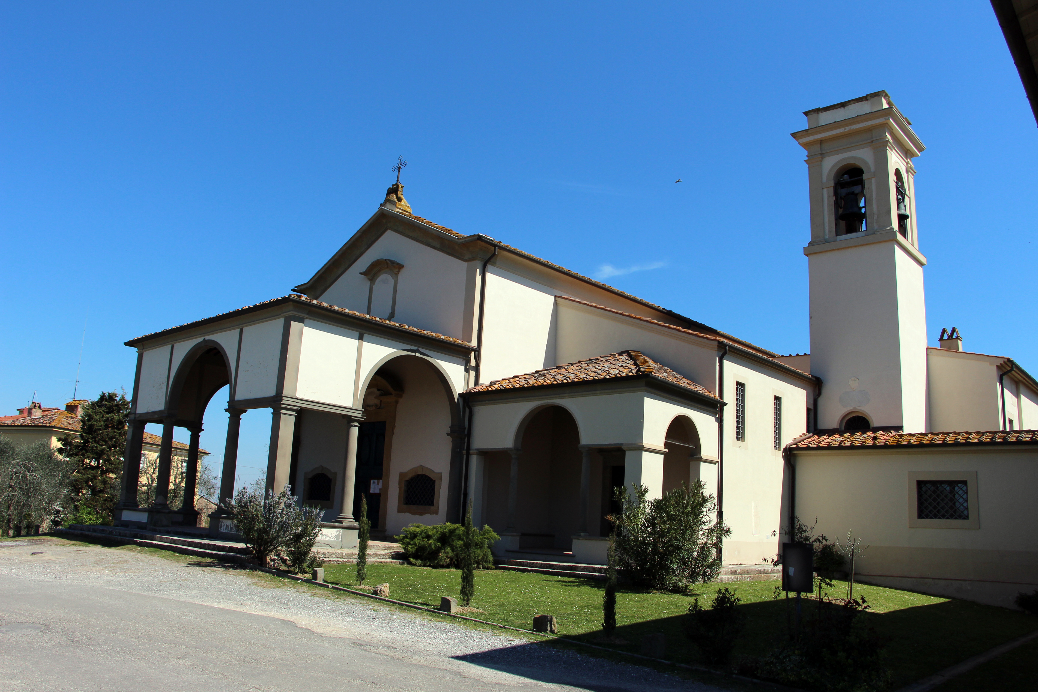 Santissima Annunziata (Capannoli)